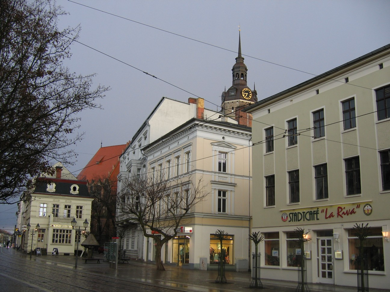 Description: main street in Brandenburg an der Havel Source: Own work Date: 04 April 2006 Author: User:Martinum